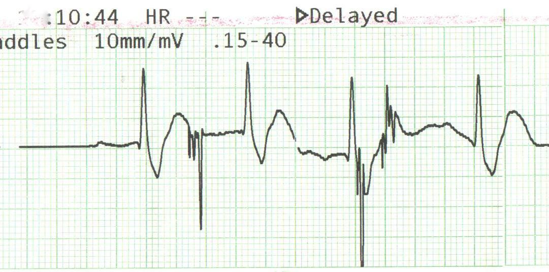 akg death